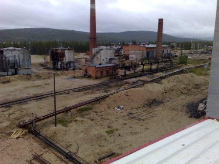 Boiler station of vil.Enskiy in Murmansk region. Modified to use Water Coal Fuelinstead of heating oil